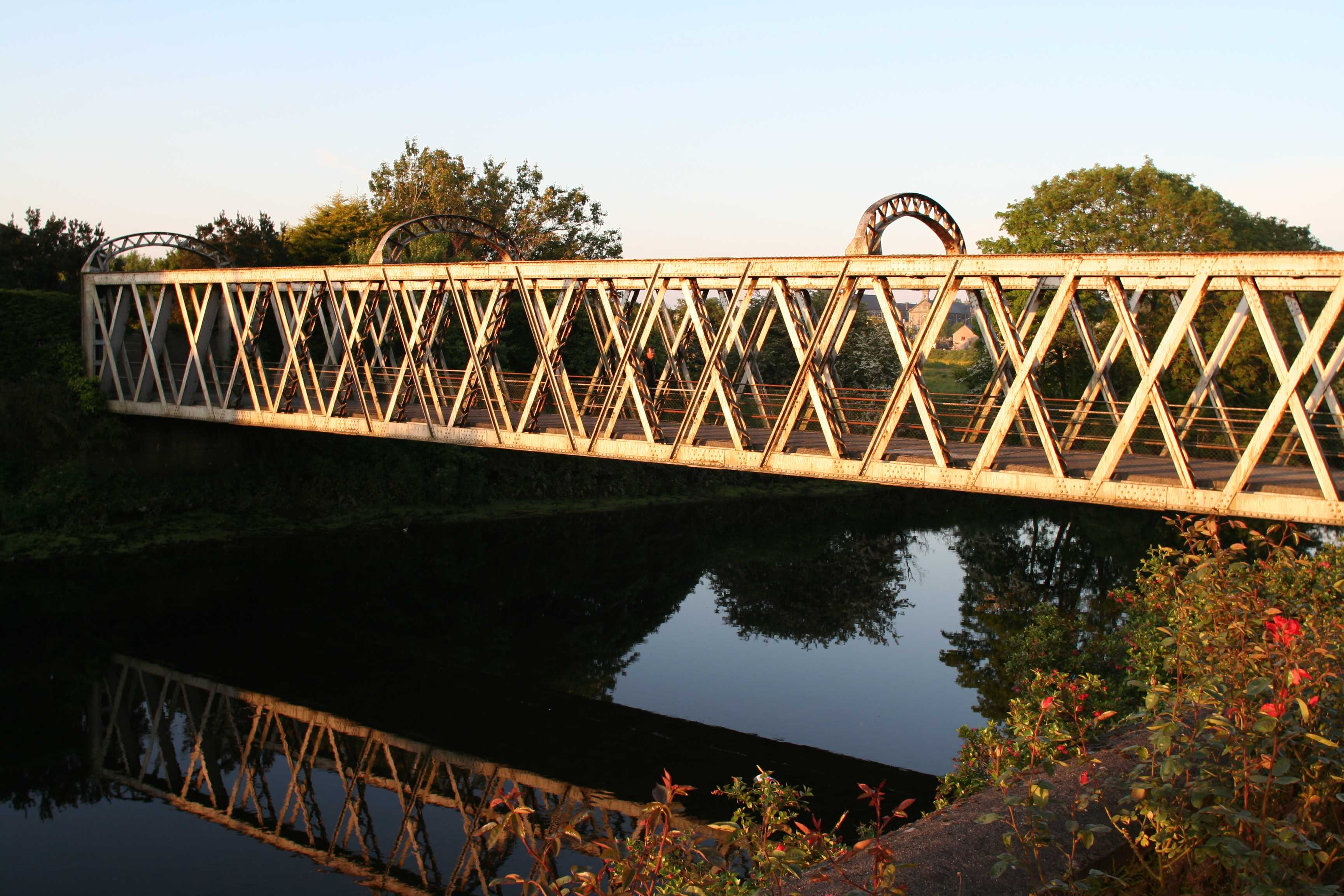 Railway truss bridge in Skibbereen (Ireland)